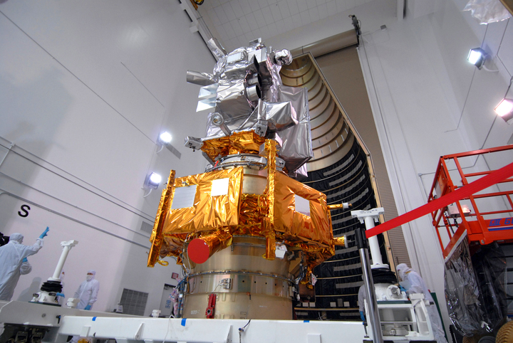 CAPE CANAVERAL, Fla. – At Astrotech Space Operations Facility in Titusville, Fla., NASA's Lunar Reconnaissance Orbiter, or LRO, and NASA's Lunar Crater Observation and Sensing Satellite, known as LCROSS, are being prepared for fairing installation. The LRO includes five instruments: DIVINER, LAMP, LEND, LOLA and LROC. They will be launched aboard an Atlas V/Centaur rocket no earlier than June 17 from Launch Complex-41 on Cape Canaveral Air Force Station in Florida. Photo credit: NASA/Jack Pfaller